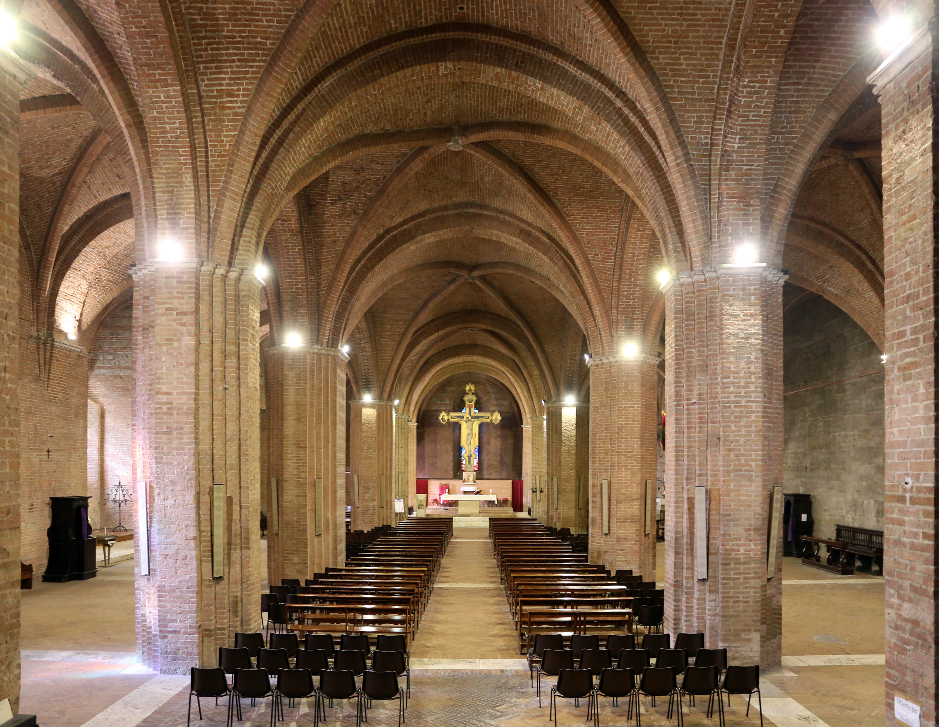 Basilica of San Domenico (Siena) - Crypt